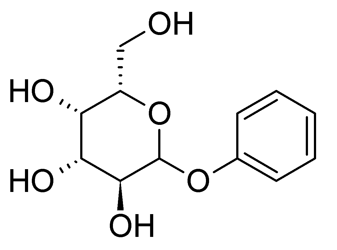 I made it myself using ACD/ChemSketch